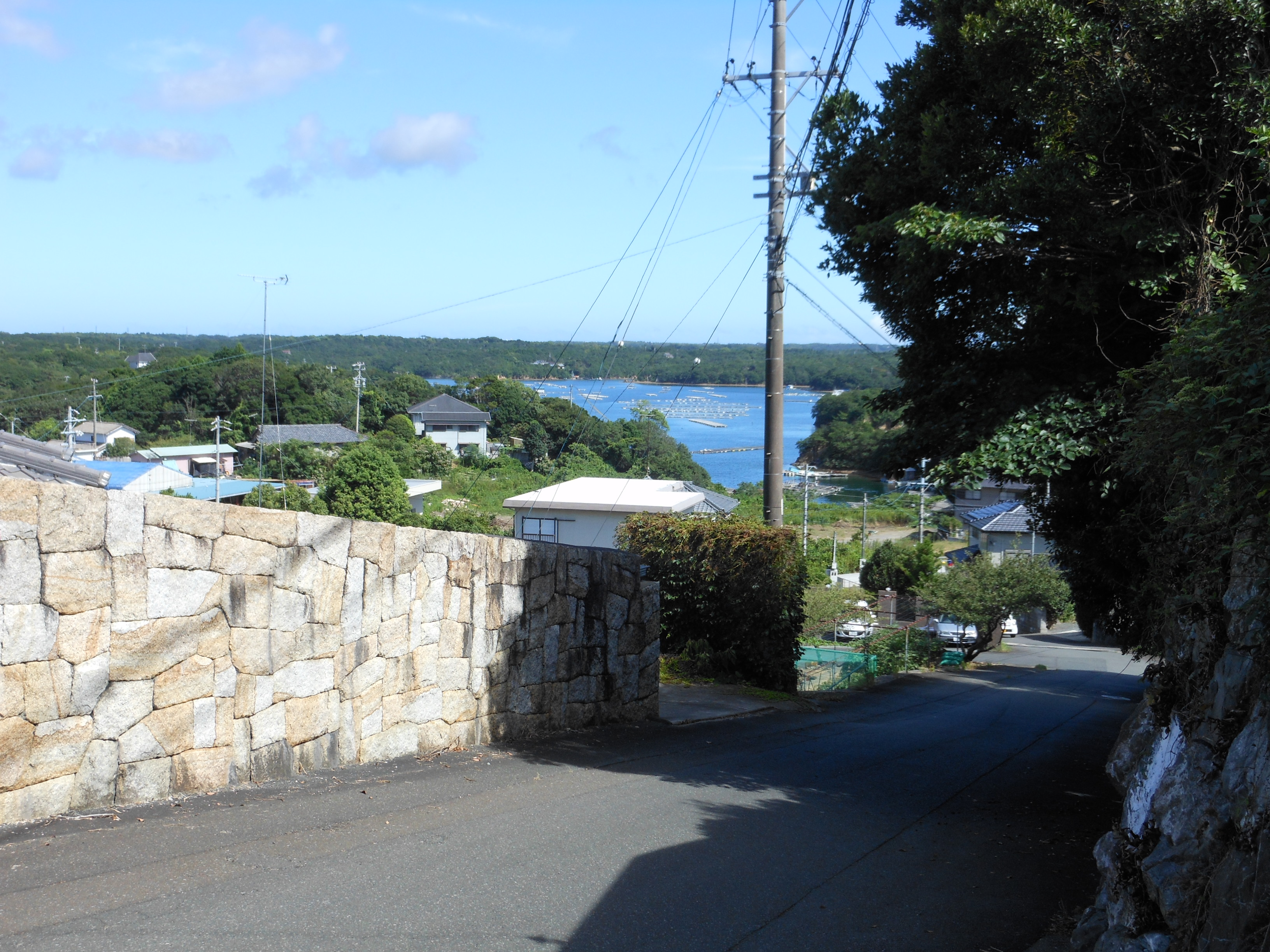 This is a landscape of Agocho-Shimmei, Shima city, Mie prefecture, Japan.